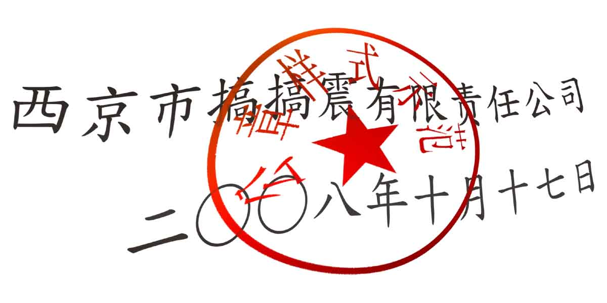 Demo of using a stamp in People's Republic of China